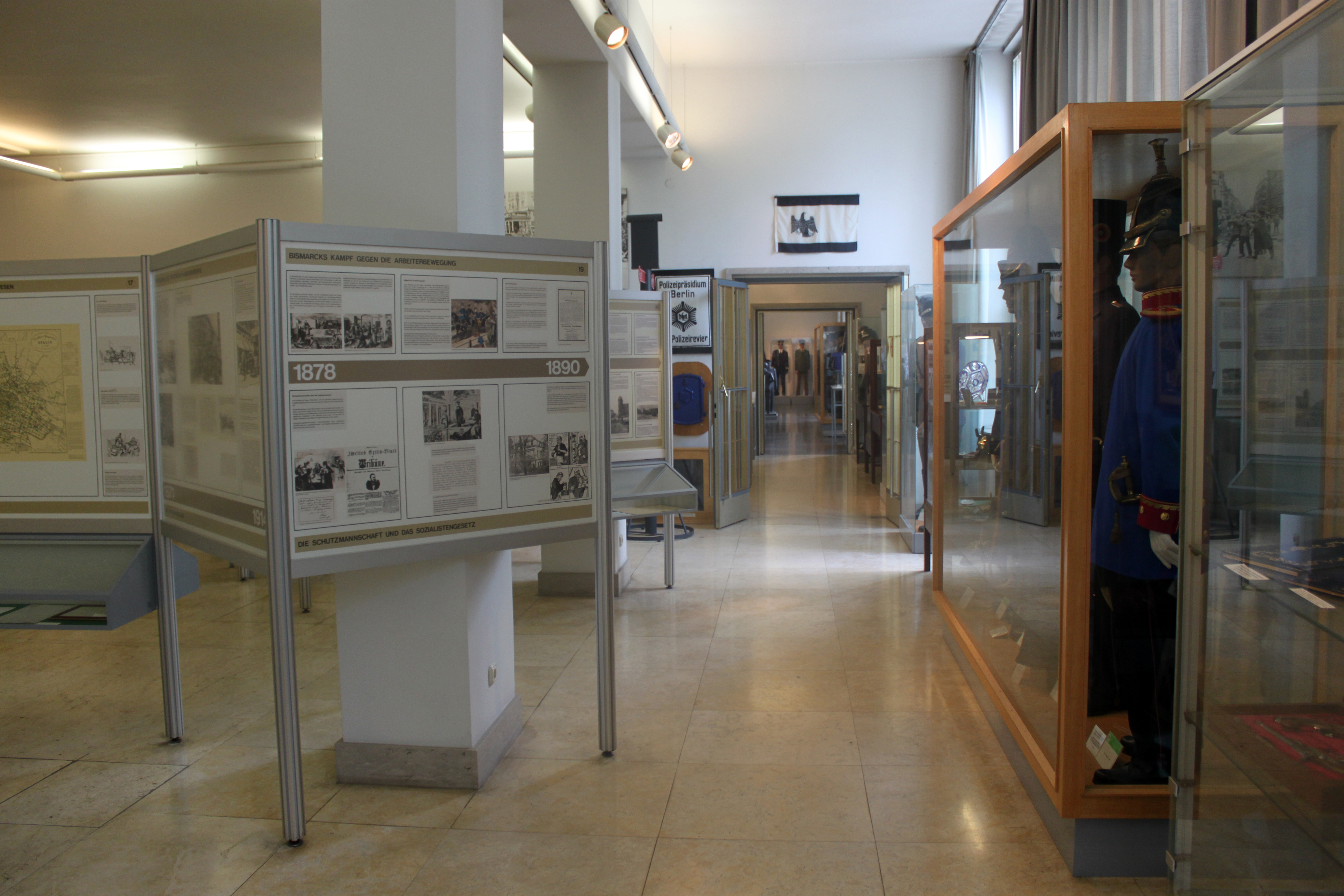 Police Historical Collection Berlin-Tempelhof, Germany